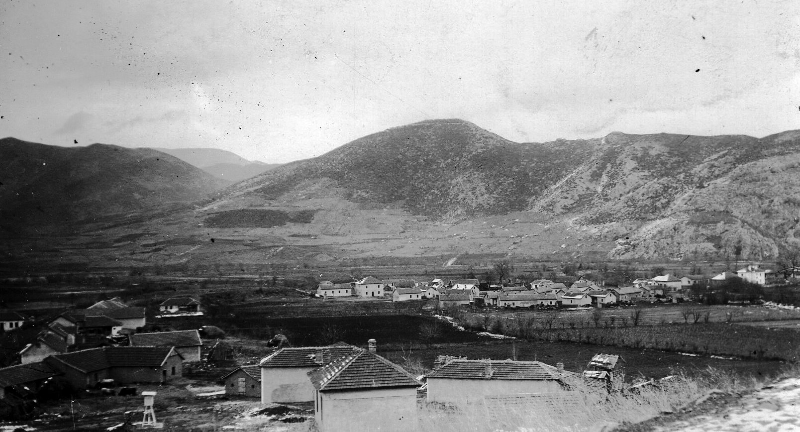 Demir Kapija, 1930s This media file is produced by Wikipedian in Residence in Category:Wikipedian in Residence at DARM in 2016.